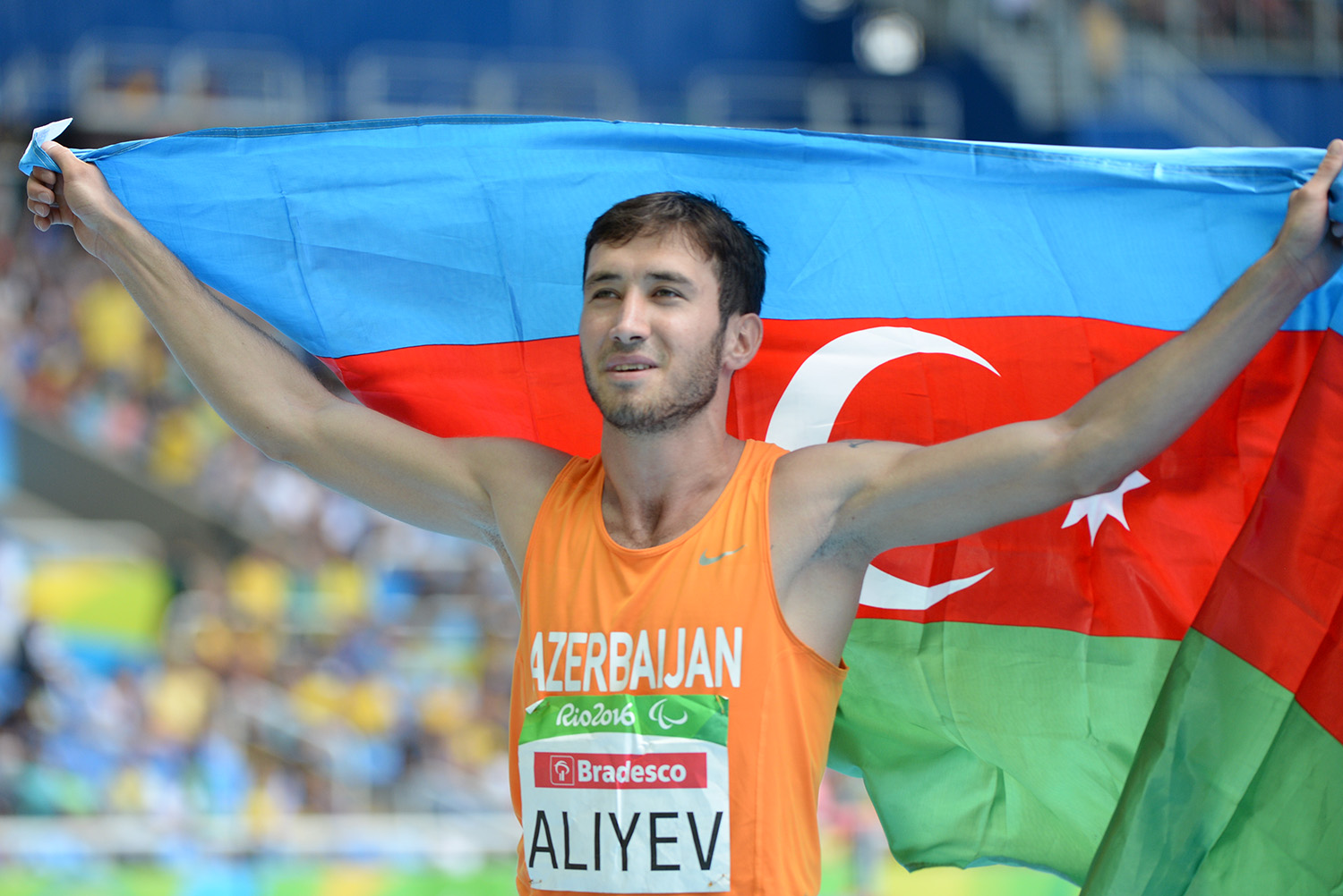 Kamil Aliyev at the 2016 Summer Paralympics – Men's long jump (T12)